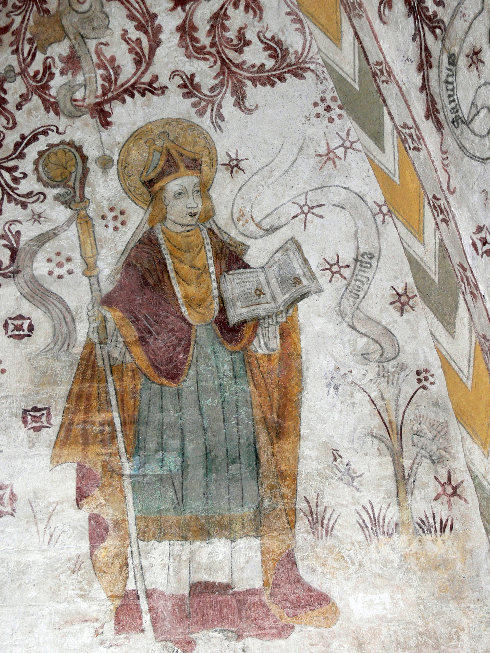 Stubbekøbing parish church. Fresco of Saint Nicholas.